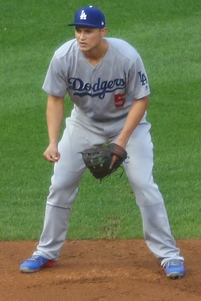 Corey Seager for the 2017 Los Angeles Dodgers